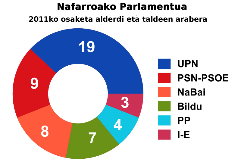 2011 Navarre Parlament's composition by political parties and groups.